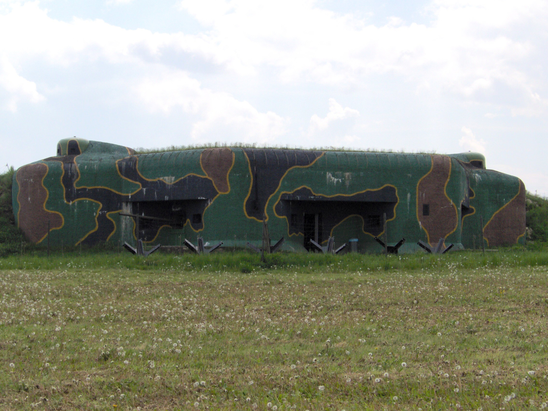 MJ-S 3 Zahrada infantry casemate, Znojmo District, Czech Republic